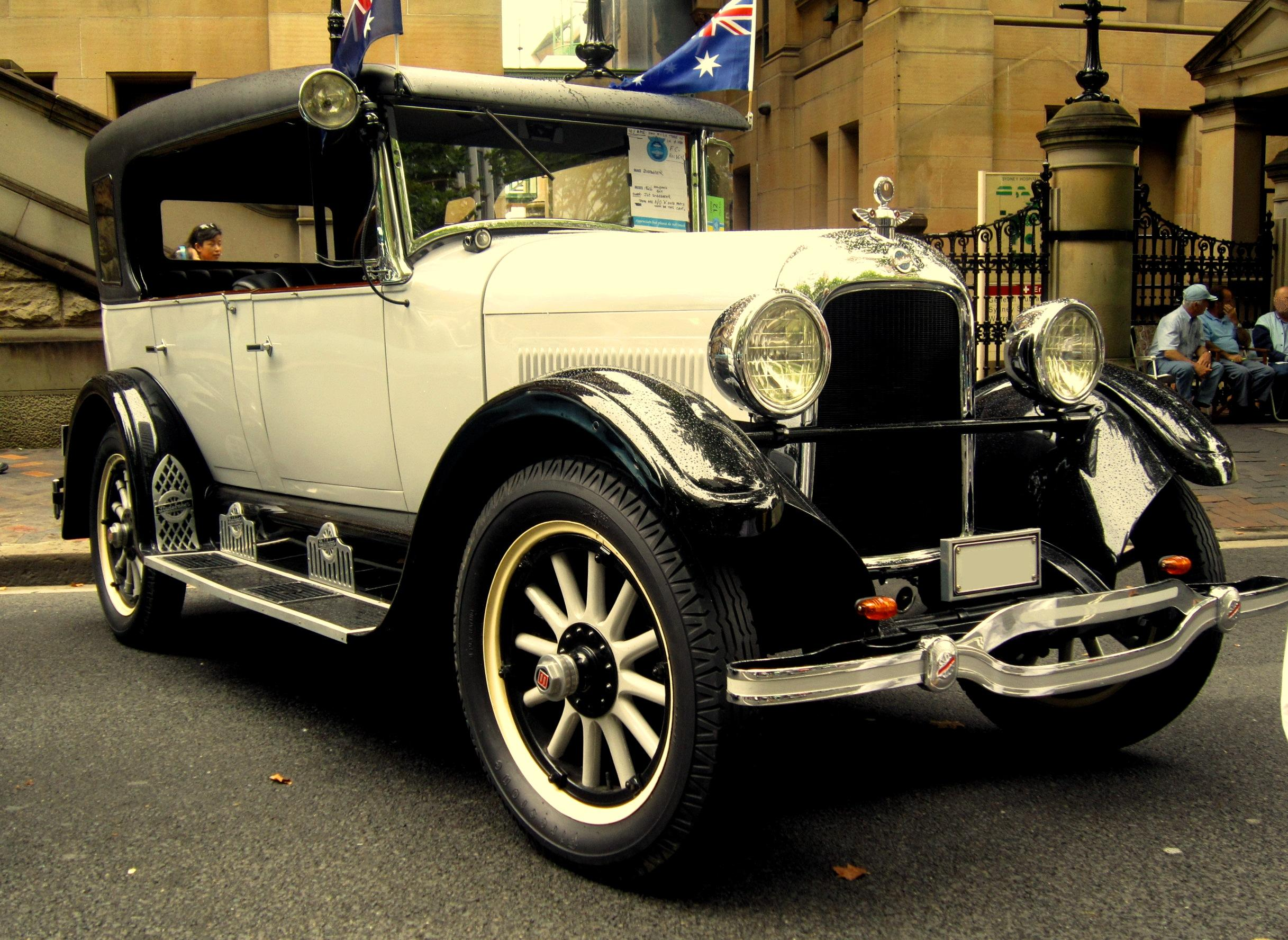 2012 NRMA Motorfest